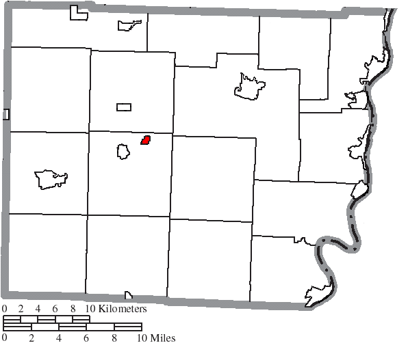 Map of the municipal and township boundaries of Belmont County, Ohio, United States, as of the 2000 census, with the location of the village of Belmont highlighted. Township borders are shown only in unincorporated areas in order to differentiate incorporated and unincorporated areas more clearly.